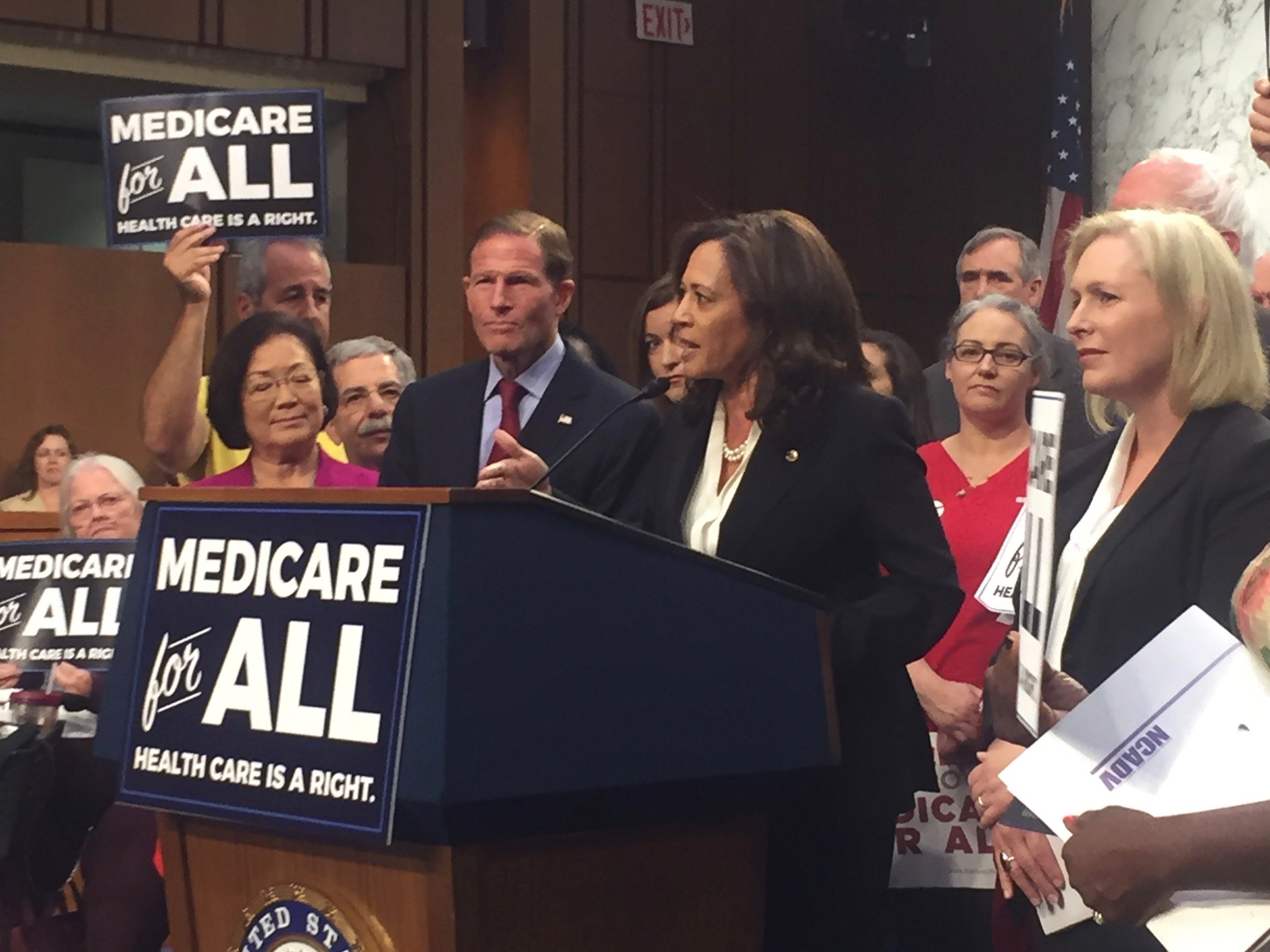 Medicare for All is the proposition that all Americans, from the day of their birth, will have access to health care.